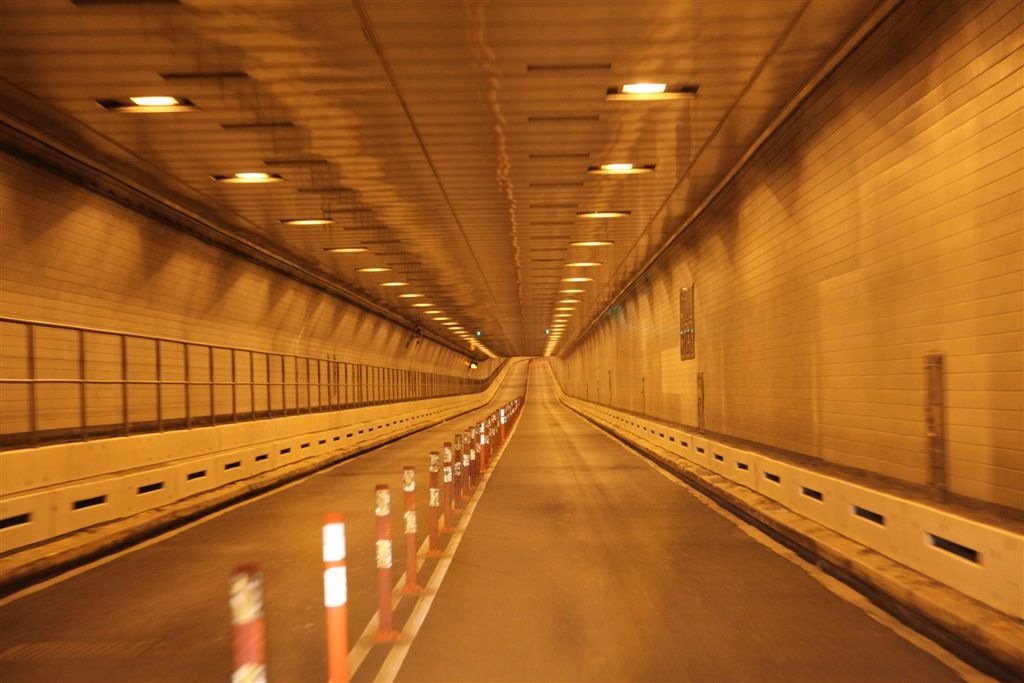 The MTA's Hugh L. Carey Tunnel (formerly the Brooklyn-Battery Tunnel) will officially close at 2 p.m. on October 29. Photo: MTA New York City Transit / Leonard Wiggins